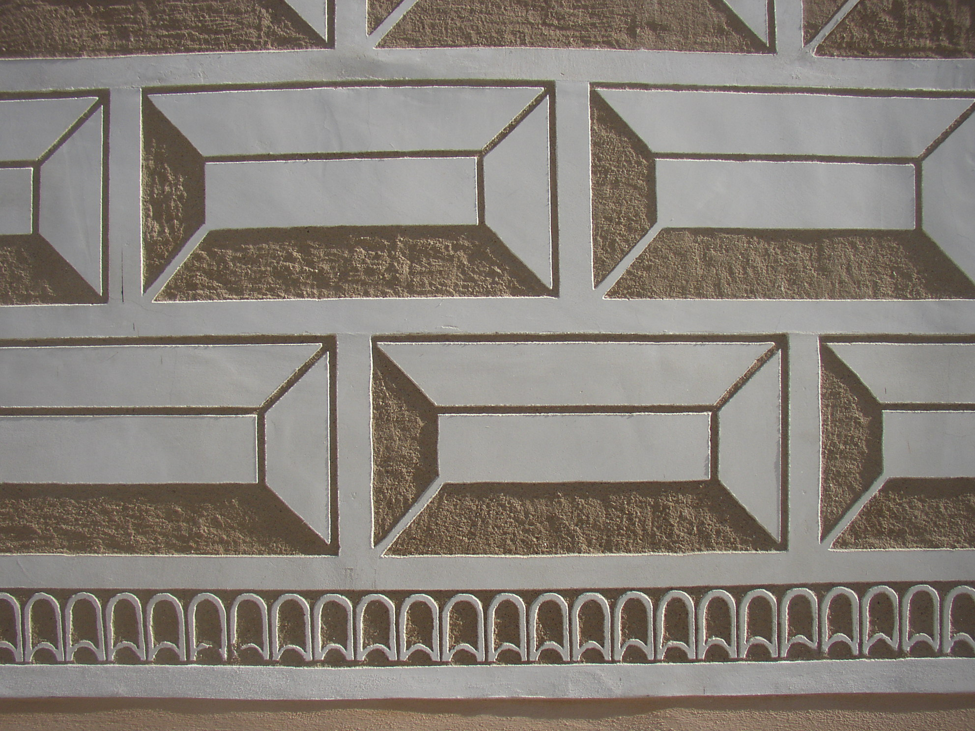 Detail of Renaissance sgraffito decor on walls of Březnice Chateau, Czech Republic.